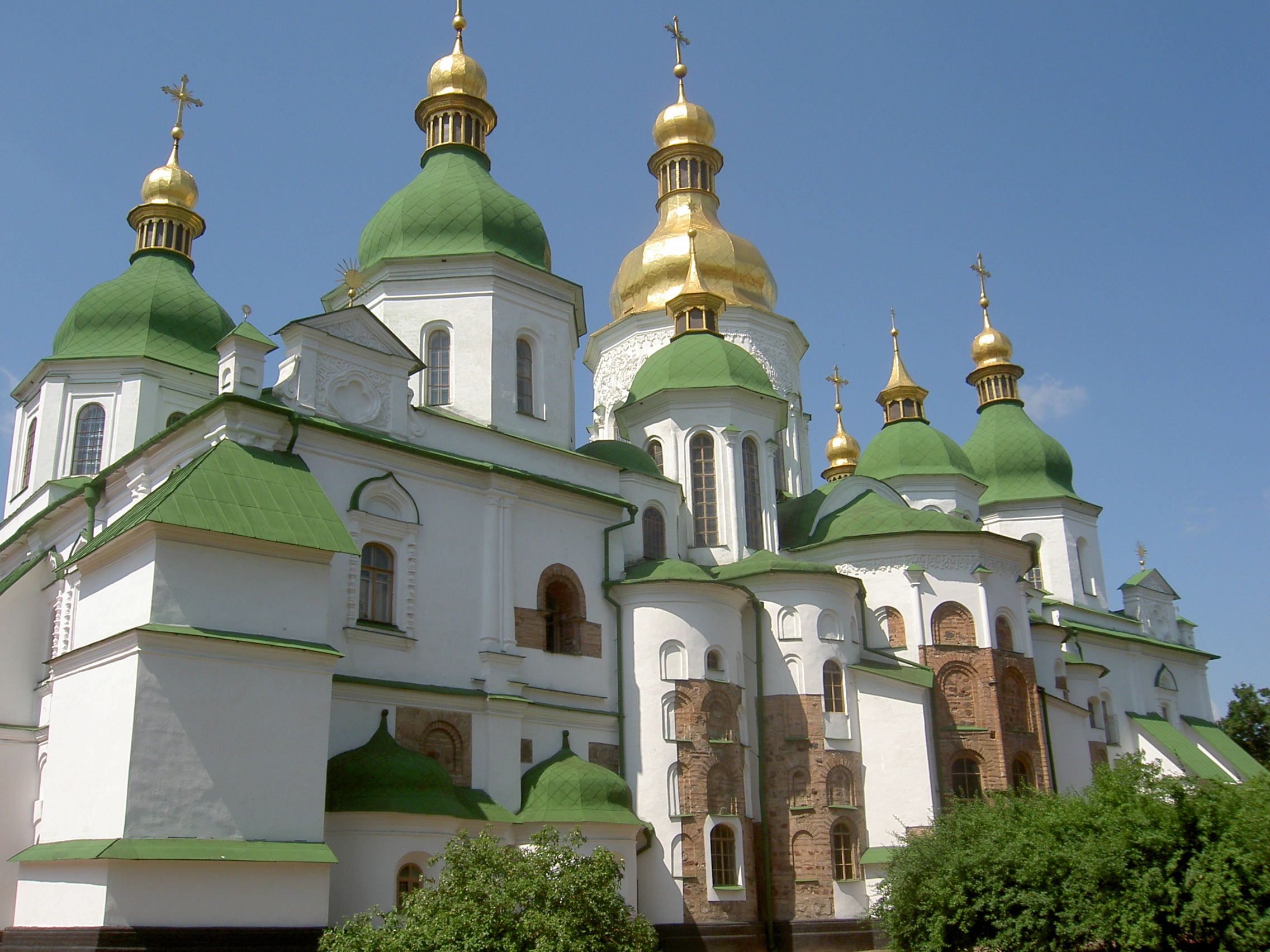 Saint Sophia Cathedral in Kiev